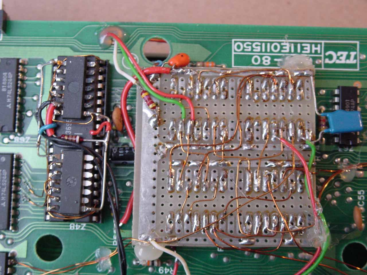 TRS-80 model 1 add-on. Extra hardware and memory (SRAM) has been added to peek into part of the existing memory (DRAM).